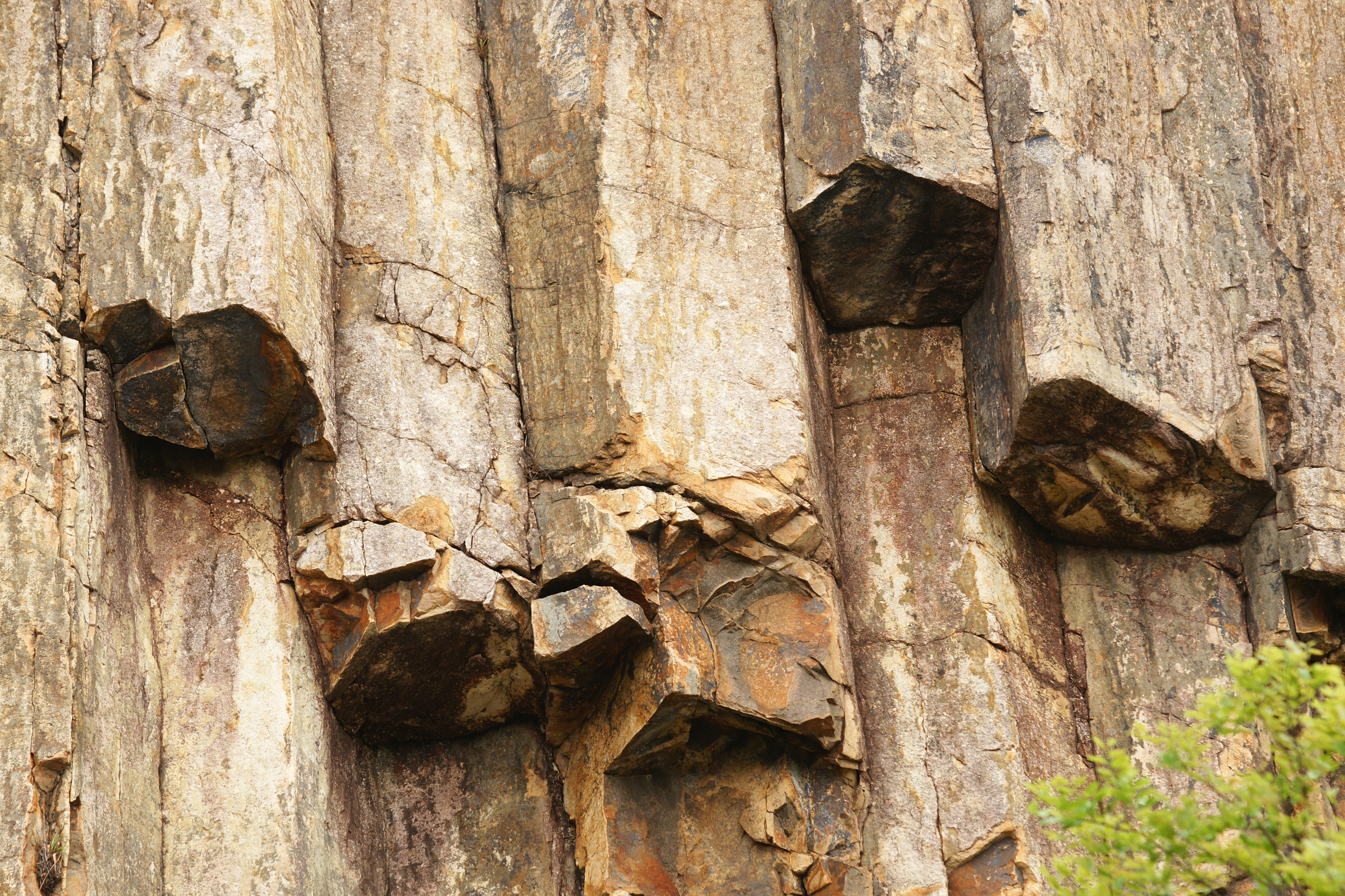 Stone Pillar near Sai Kung East Dam